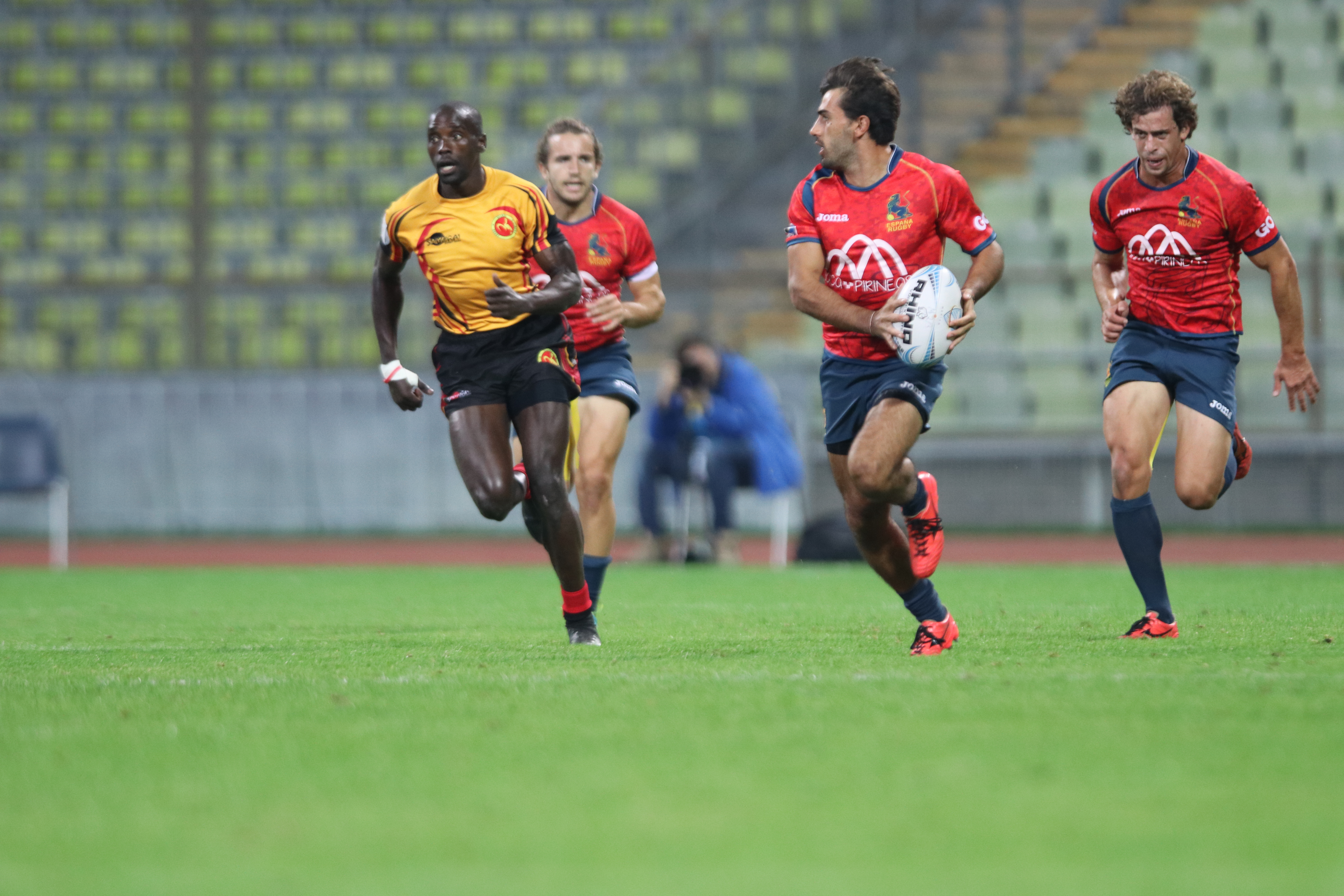 Rugby tournament "Oktoberfest 7s", Munich, 2017-09-29/30 at the Olympic stadium of Munich